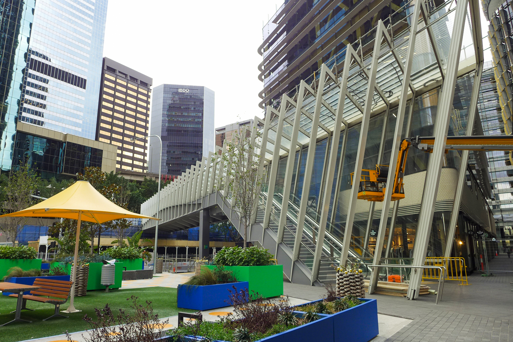 Shipwright Walk Bridge to Sydney CBD